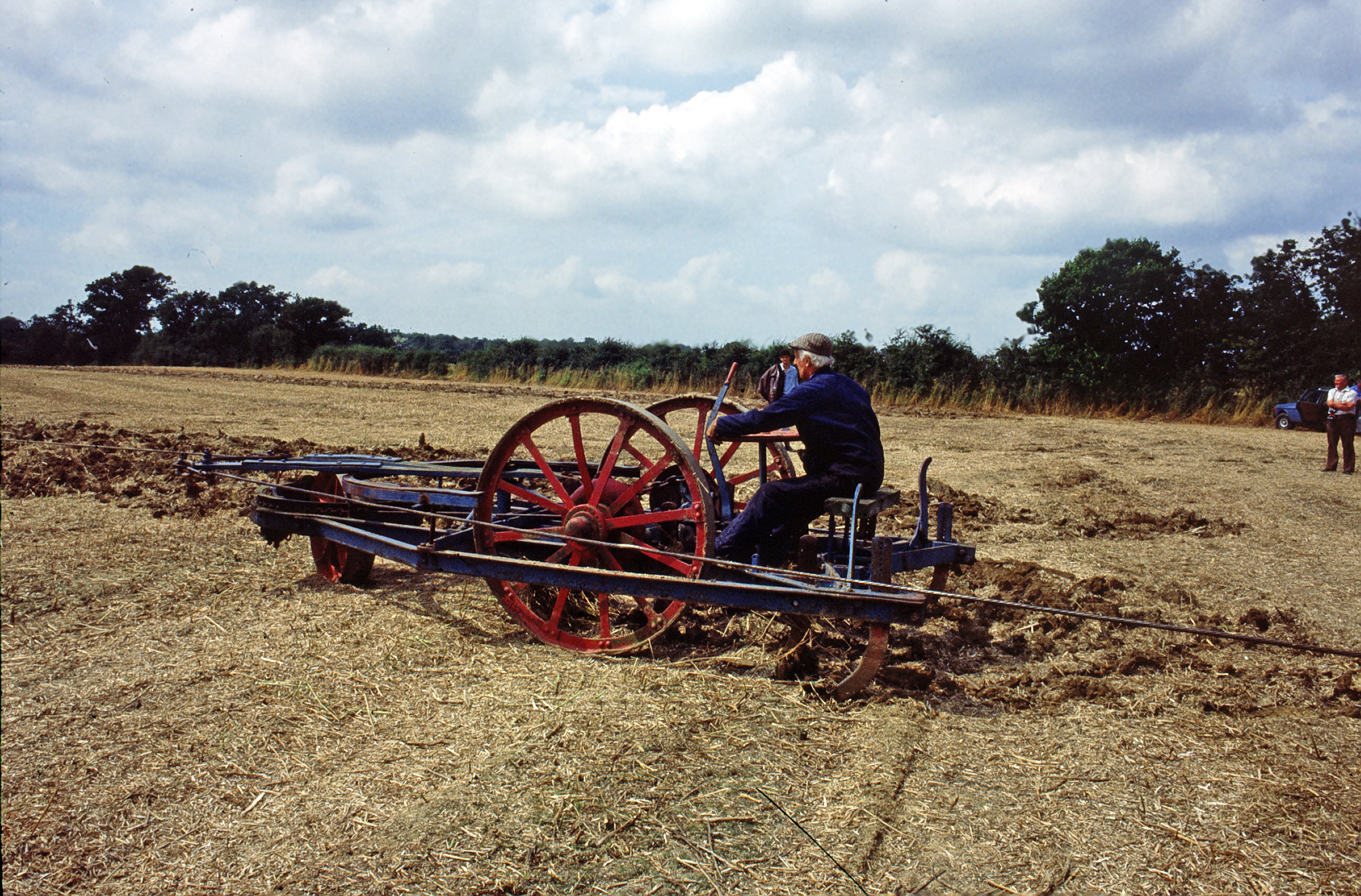 The actual tillage part of a ploughing engine combination at a ploughing and steam fair in Staplehurst, Kent, in the mid 1980s. – Here is the chisel plow that is hauled to and fro by the two ploughing engines. Unlike the engines themselves this relatively lightweight machine will not sink into the soft soil.